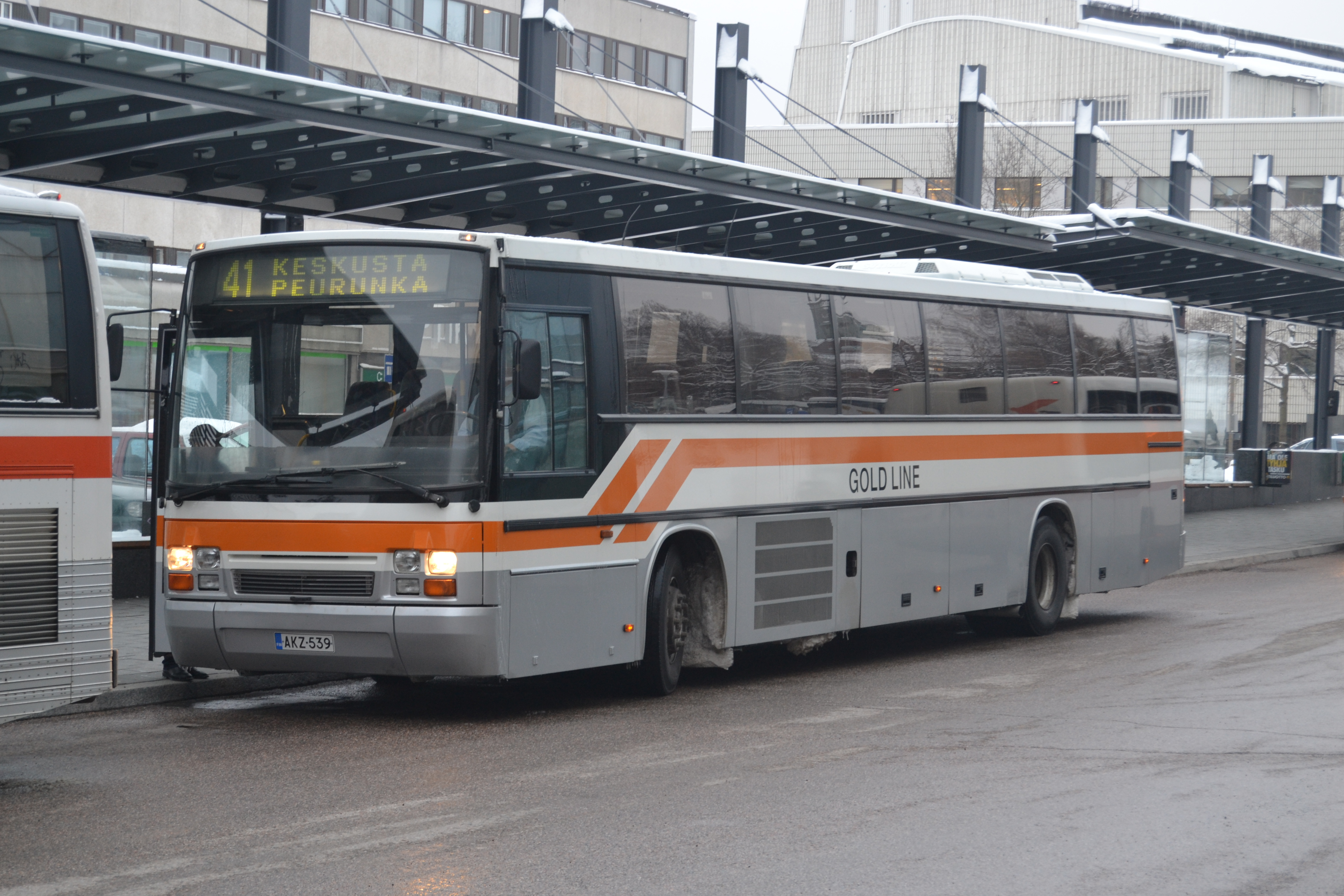 Gold Line Volvo B10M / Carrus Fifty bus in Jyväskylä, Finland